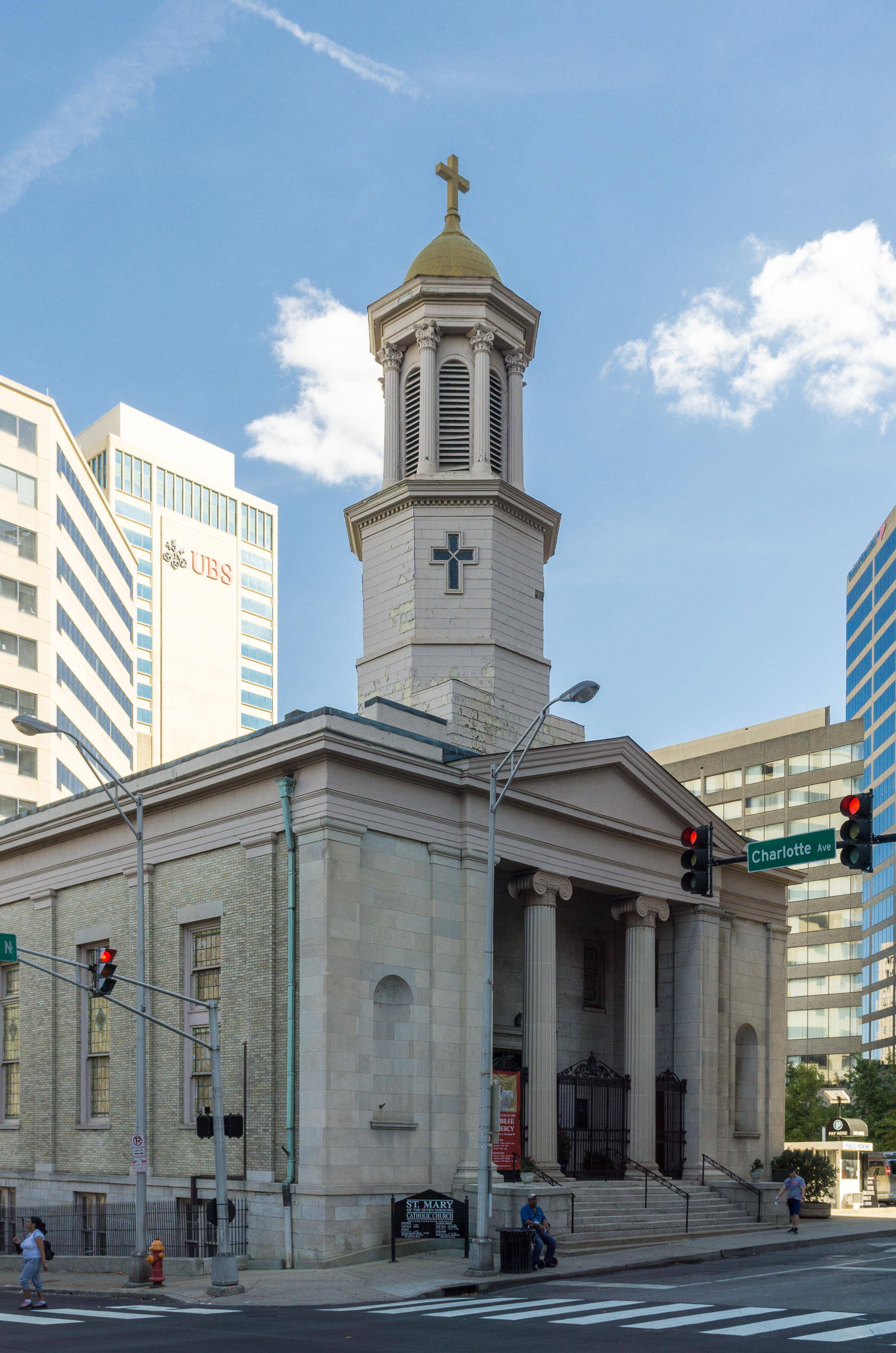 St. Mary of the Seven Sorrows Catholic Church, Nashville Tennessee.